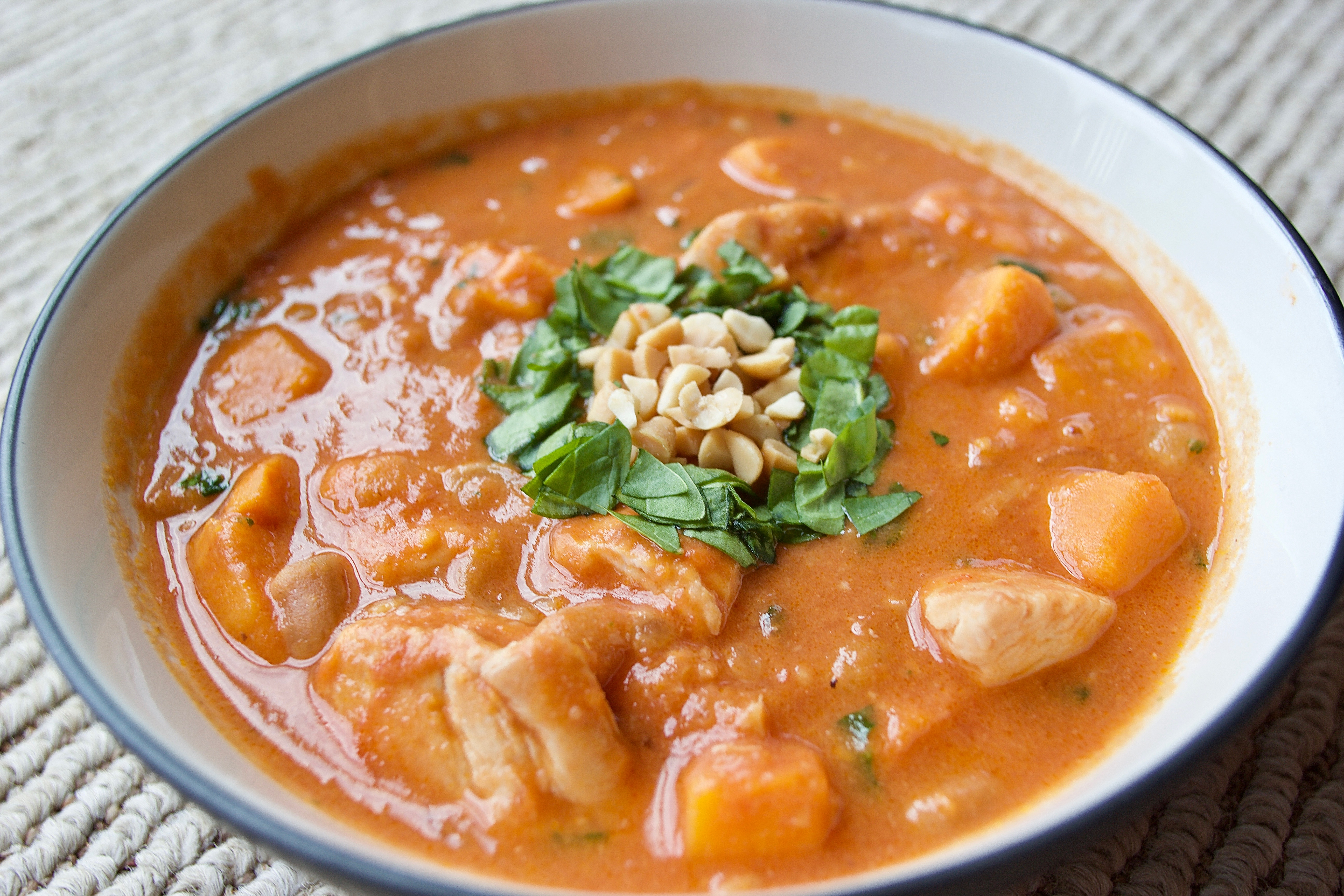 Find the recipe here.